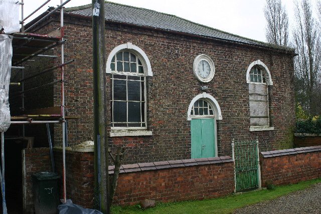 Kelfield chapel. Looking SE from position A Wesleyan Chapel, built in 1815. In need of care.